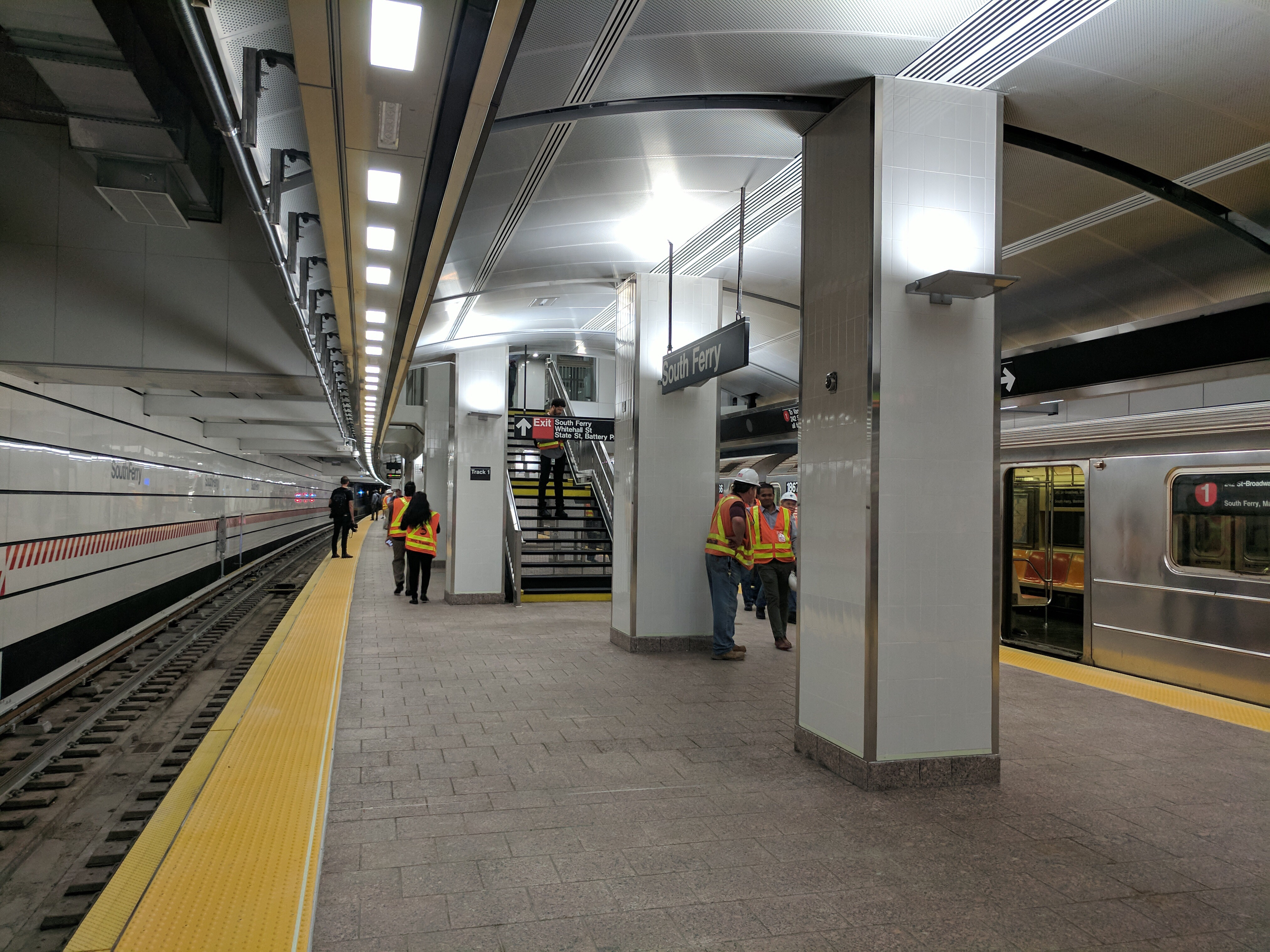 Freshly reopened platform on South Ferry on the 1.